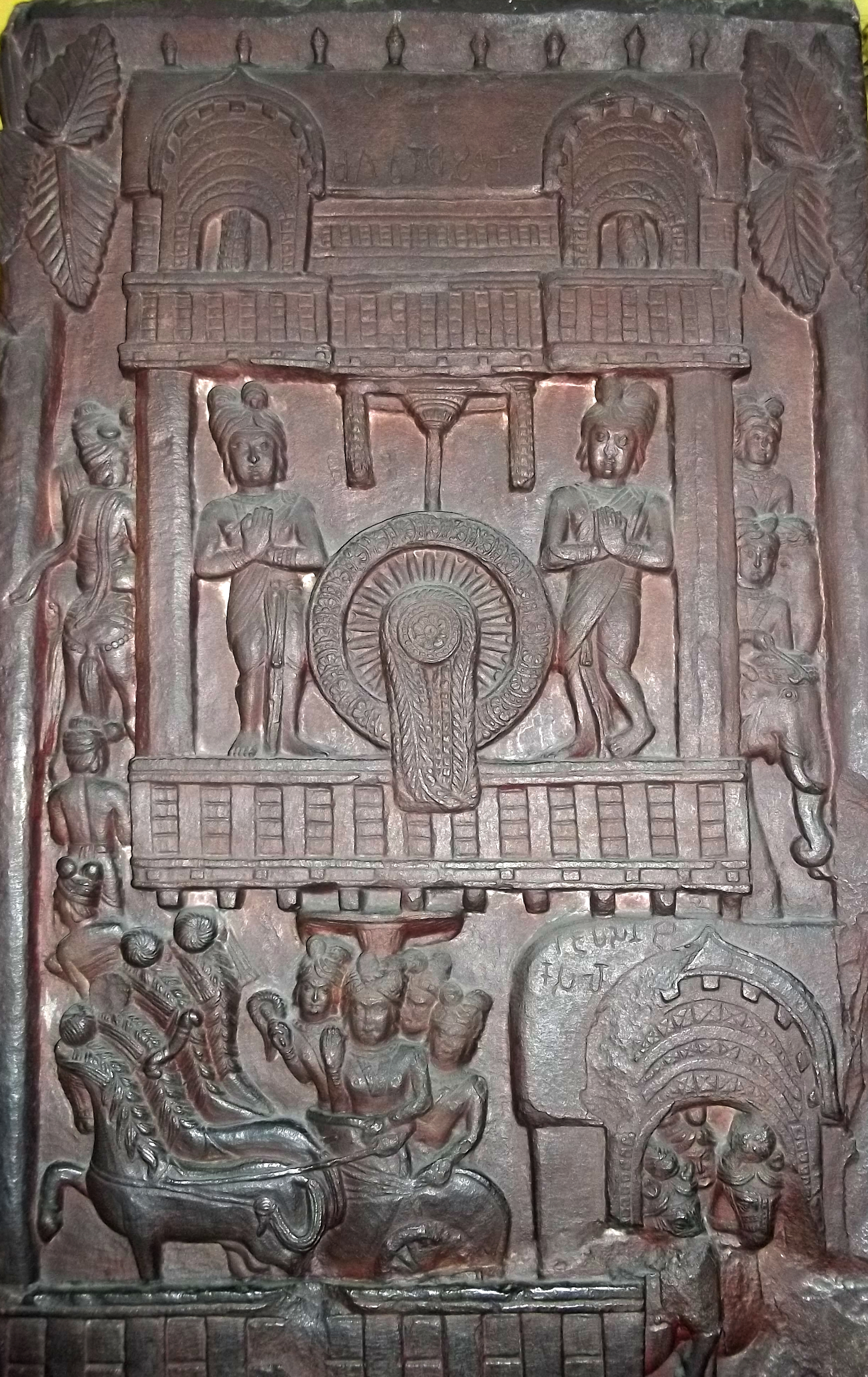 Bharhut Pasenadi Pillar - Dharmachakra